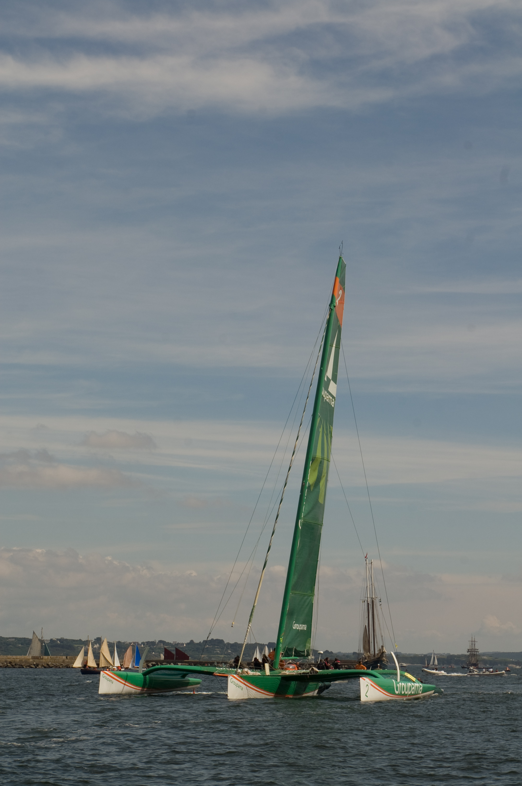 Groupama II in Brest in July 2008.